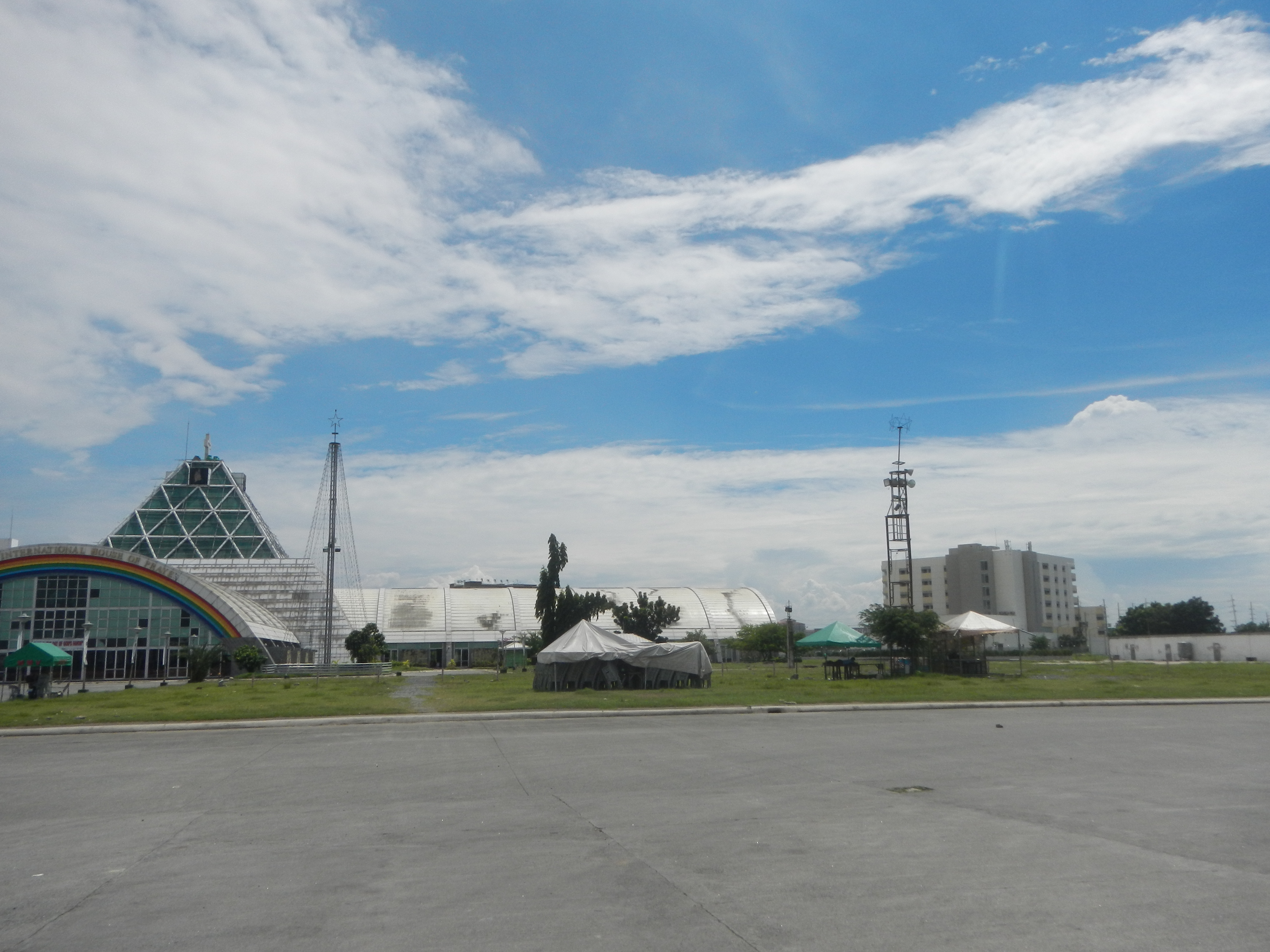 AMVEL City Business Park (AMVEL Land Development Corporation), San Dionisio, Parañaque City; El Shaddai International House of Prayer (AMVEL City Business Park, San Dionisio, Parañaque City) Mike Velarde El Shaddai (movement) Catholic Charismatic Renewal; Legislative districts of Parañaque 1st District, Districts and barangays, Barangays San Dionisio 14°29'2"N 120°59'33"E La Huerta 14°29'50"N 120°59'43"E beside Santo Niño 14°30'14"N 121°0'11"E San Isidro 14°28'1"N 121°0'40"E San Isidro, Parañaque San Antonio 14°27'56"N 121°1'52"E from Baclaran, Parañaque City (Note: Judge Florentino Floro, the owner, to repeat, Donor Florentino Floro of all these photos hereby donate gratuitously, freely and unconditionally Judge Floro all these photos to and for Wikimedia Commons, exclusively, for public use of the public domain, and again without any condition whatsoever).